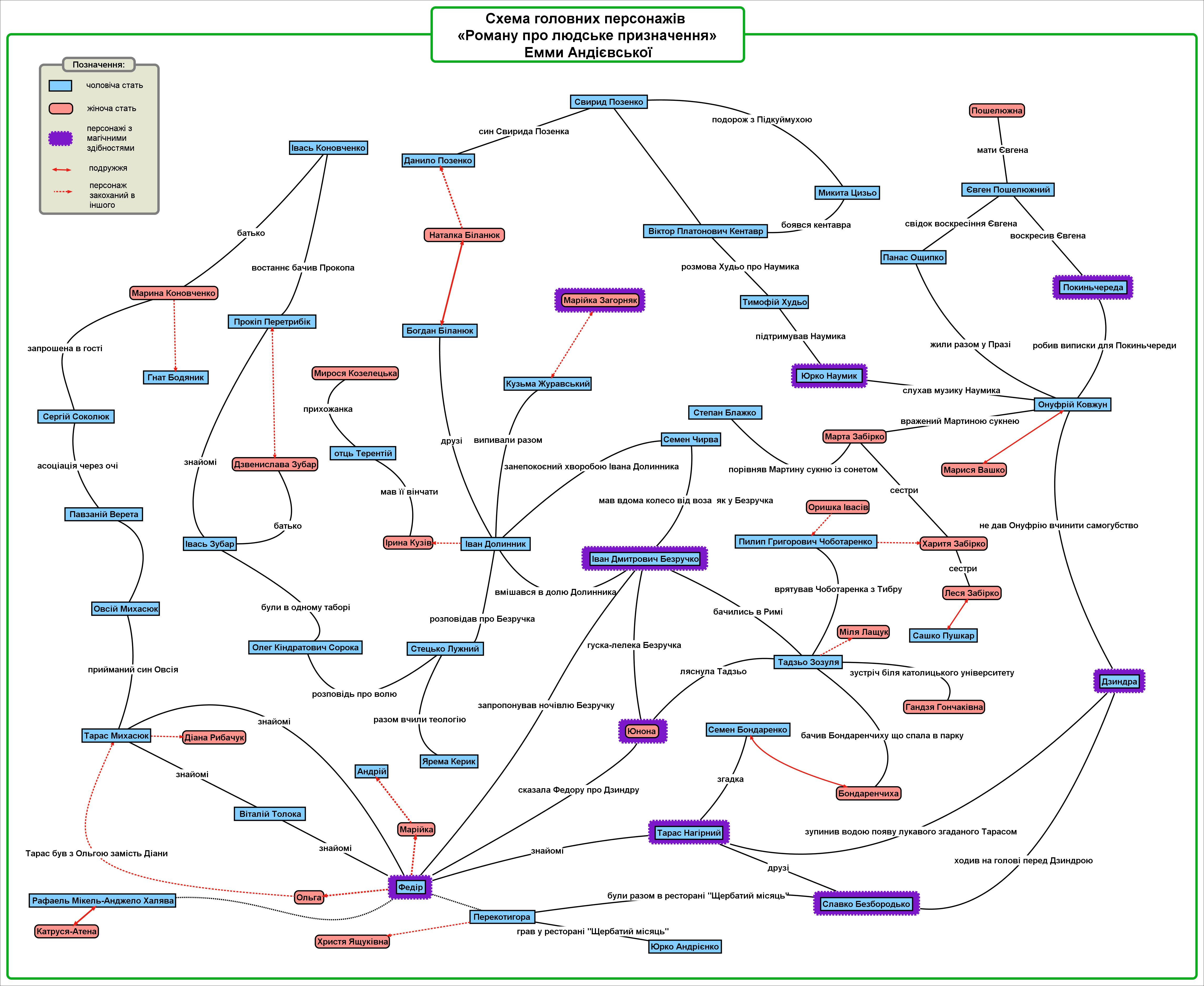 Concept map of the main characters of the "Novel about Human Destiny" by Emma Andijewska (in Ukrainian)